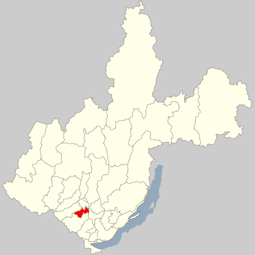 Map of Irkutsk Oblast and Ust-Orda Buryat Okrug, Russian Federation.